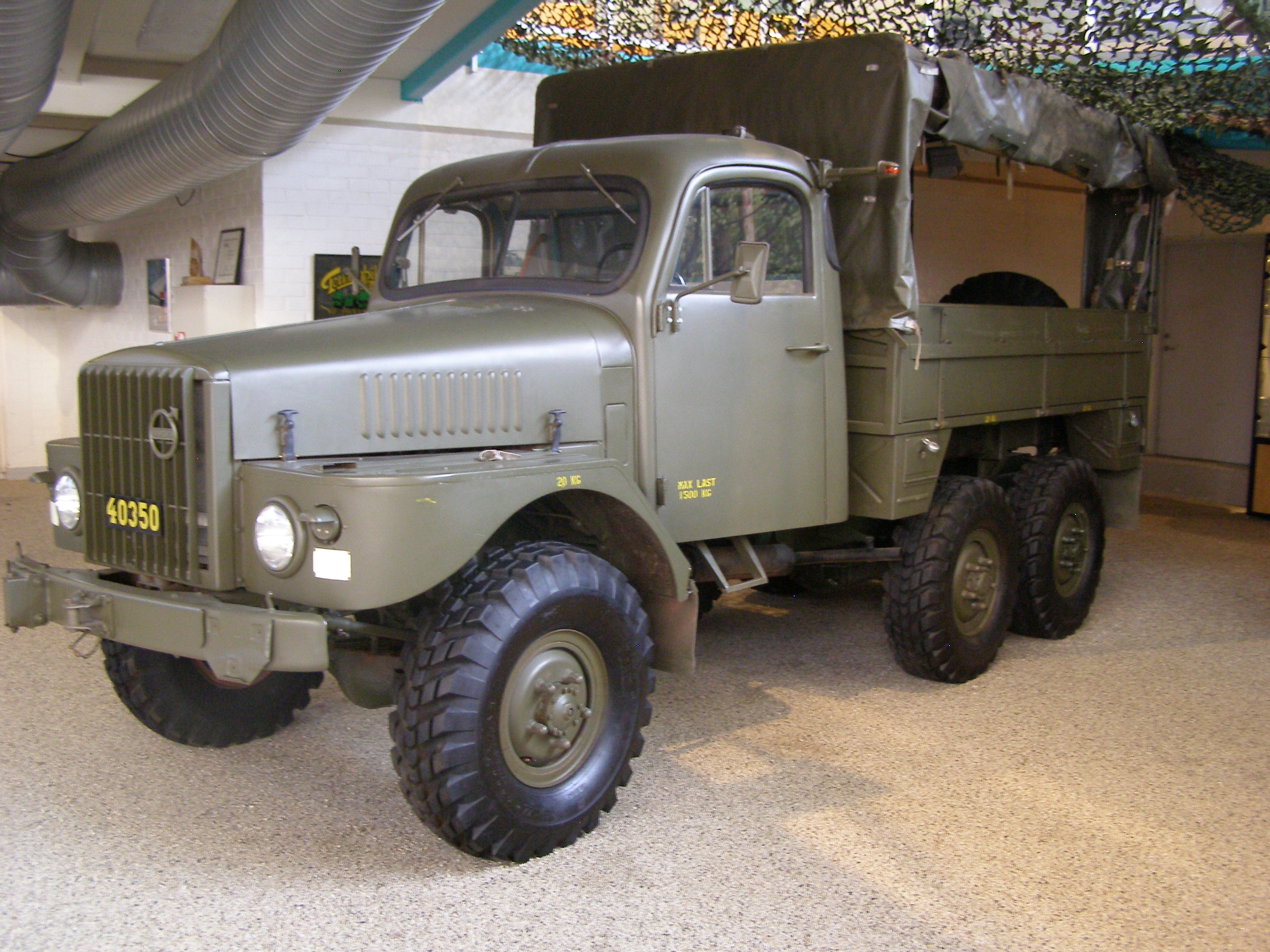 Gothenburg - Volvo Museum - Volvo L2204 (TL22)